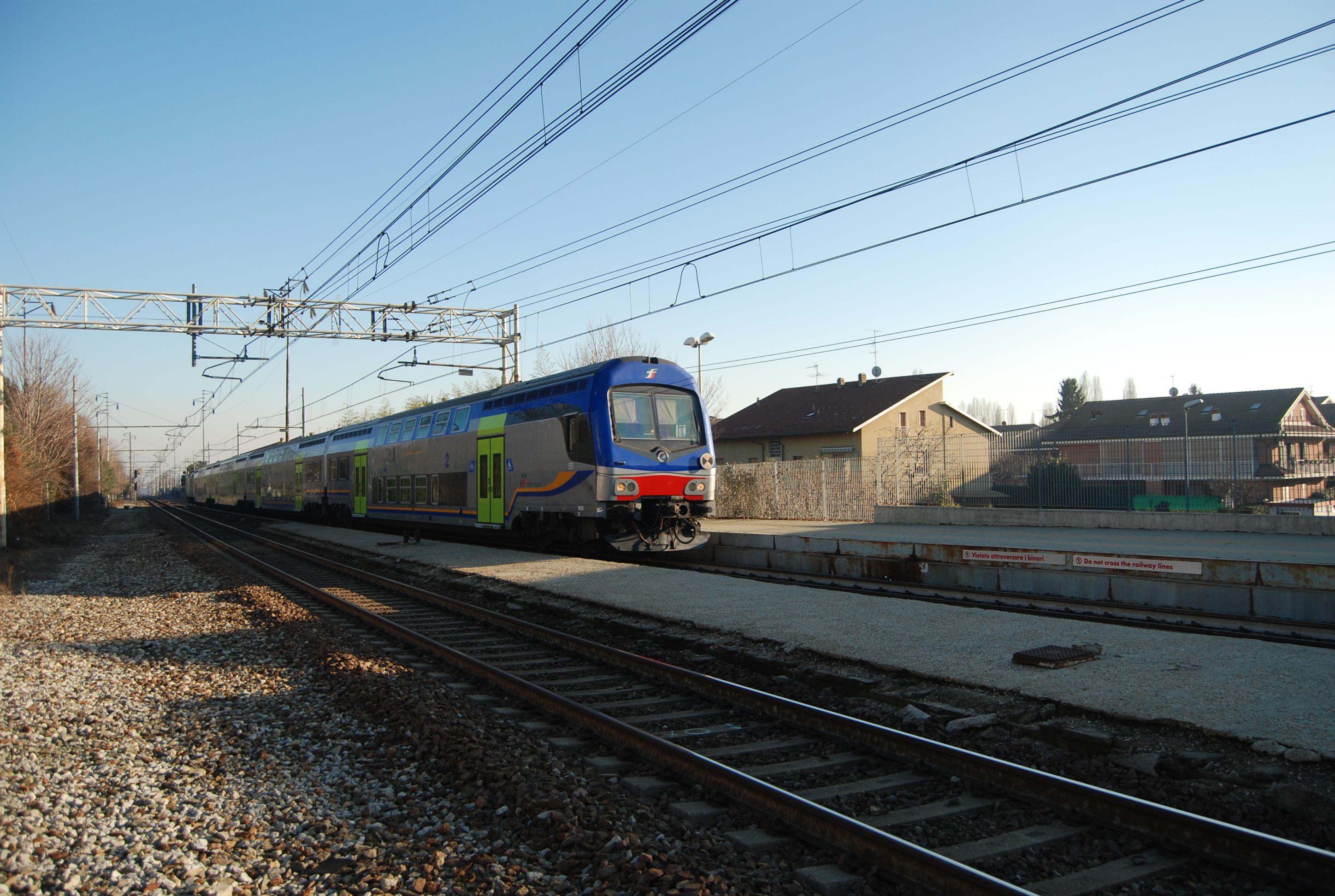 A regional train (line SFM 3) to Susa from Torino Porta Nuova. An FS Class E.464 is pushing a rake of Vivalto double-decker coaches.